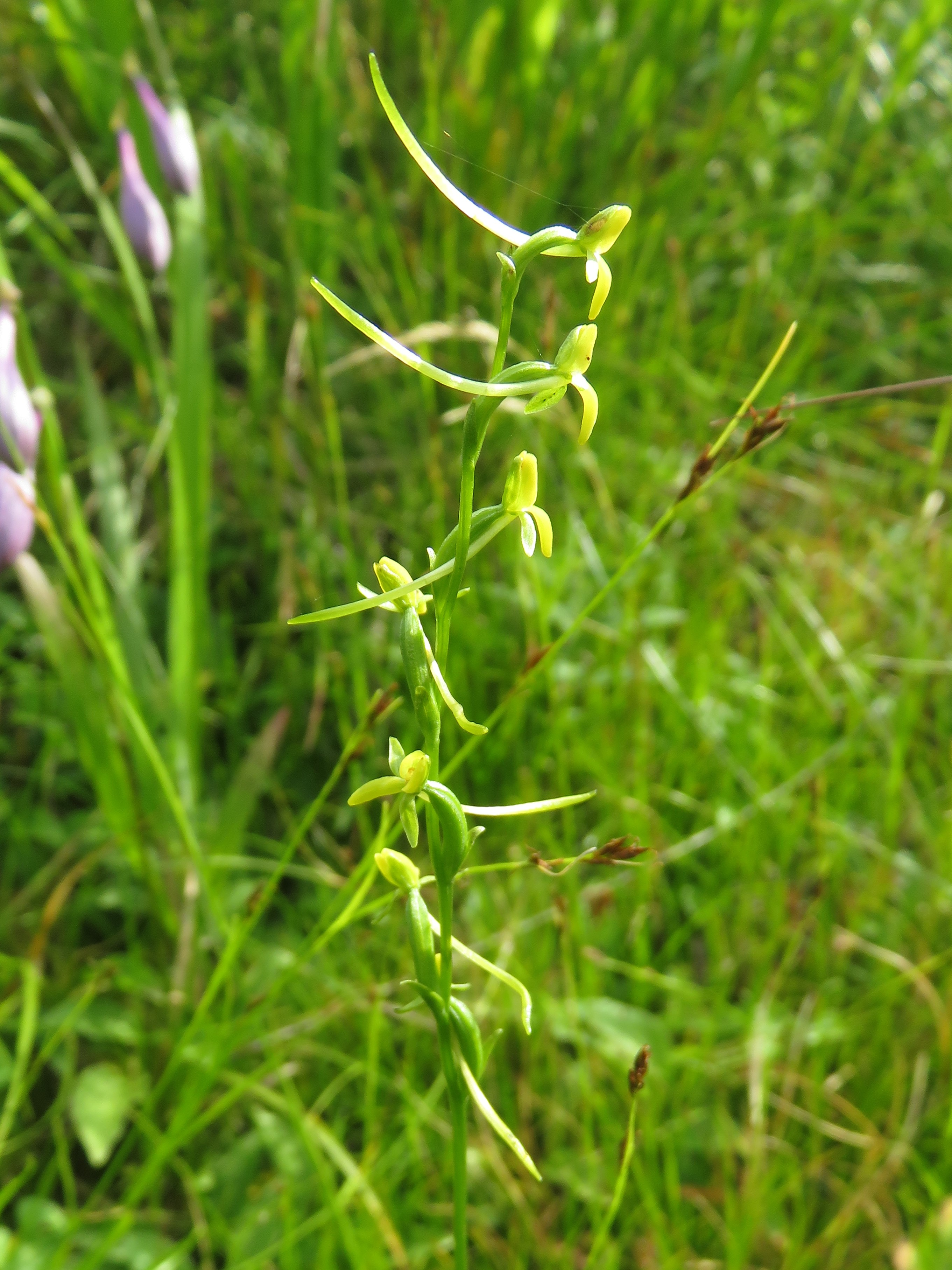 Platanthera tipuloides subsp. nipponica, Fukushima city, Fukushima pref., Japan